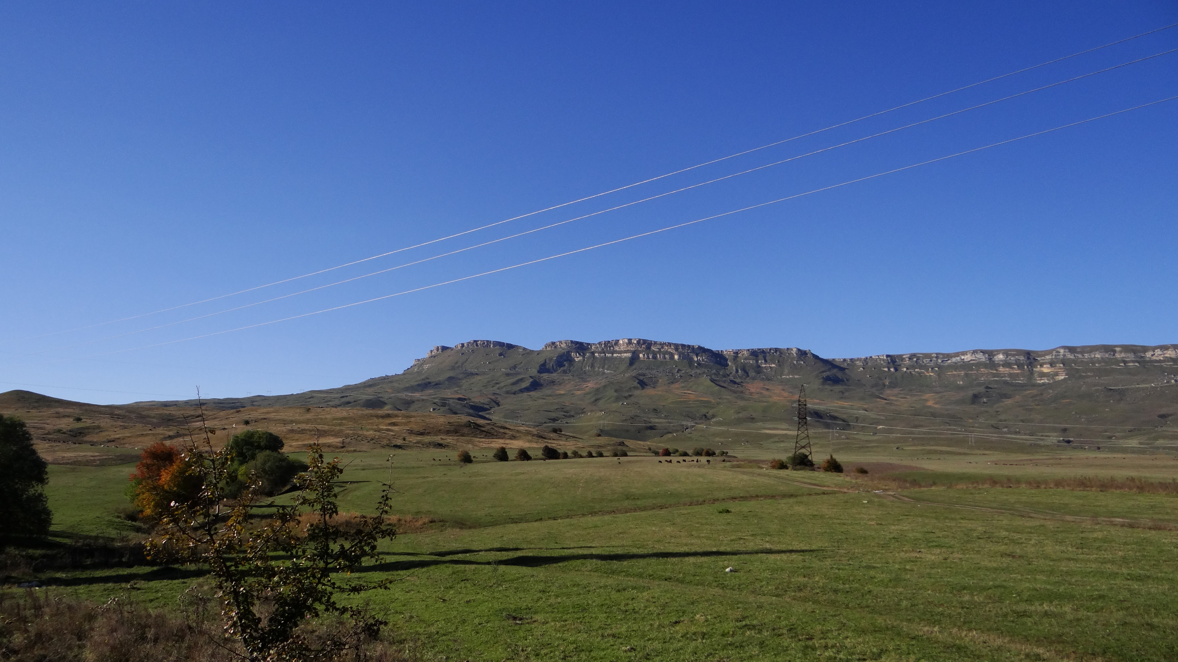 Zelenchuksky District, Karachay-Cherkessia, Russia